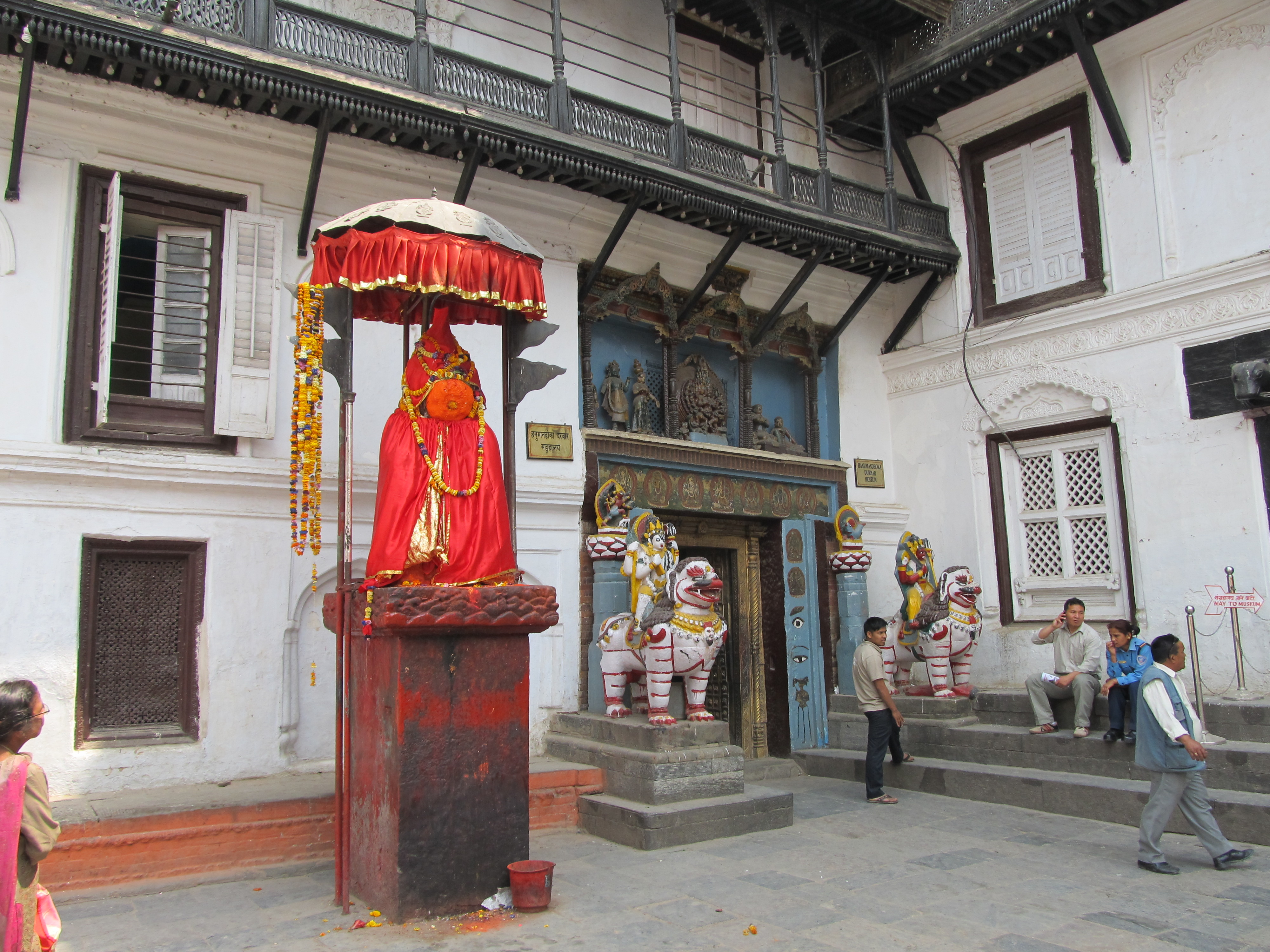 Kathmandu Darbar, Hanuman Statue and Hanuman Dhoka (Gate)